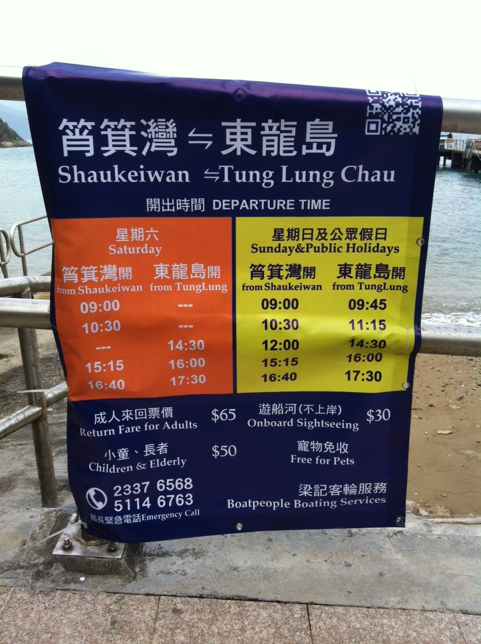 Sai Wan Ho to Tung Lung Chau ferry timetable